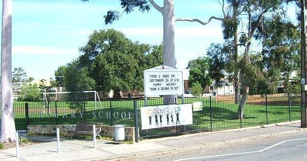 Parkside Primary School, Parkside, Adelaide, South Australia